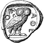 The reverse of a tetradrachm ("owl" coin) from Athens (about 490 BC)